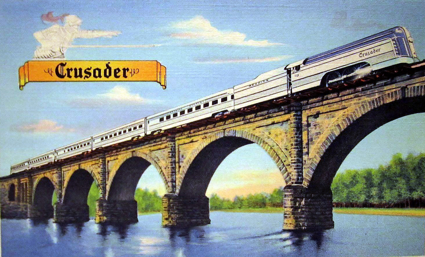 Postcard depiction of the "Crusader" an aluminum streamlined steam-driven train of the Reading Railroad between New York and Philadelphia.